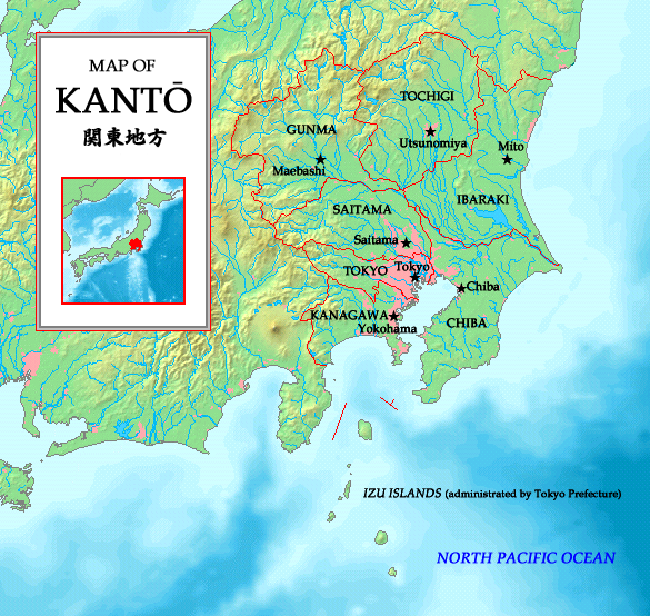 A map of the Kanto region in Japan with prefectures and their borders indicated. Made by the uploader. Map is based on a map taken from